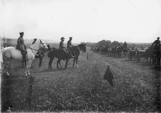 The Australian 3rd Machine Gun Battalion marches past General Monash